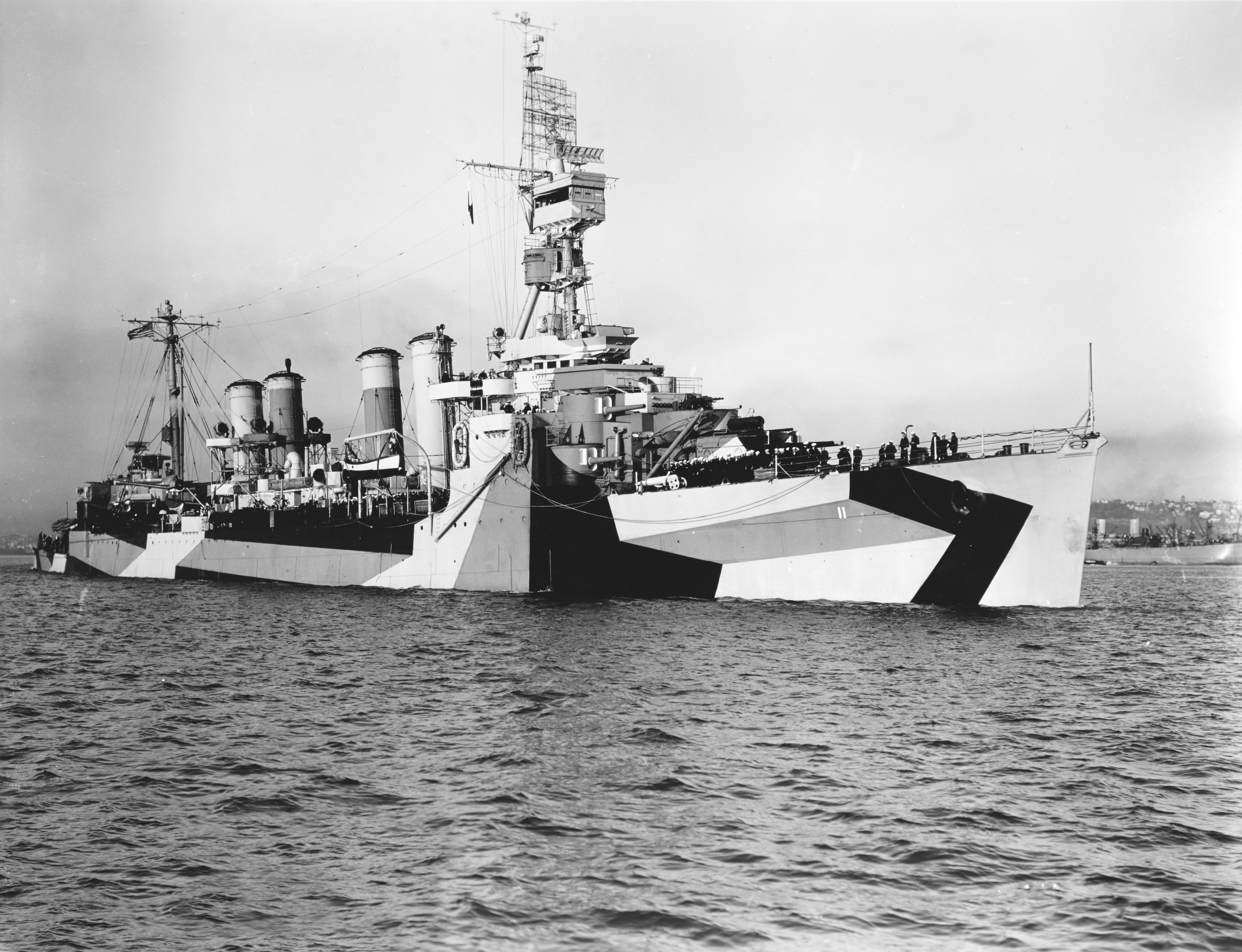 The U.S. Navy light cruiser USS Trenton (CL-11) in San Francisco Bay, California (USA), on 11 August 1944. She is wearing Camouflage Measure 33, Design 2F.